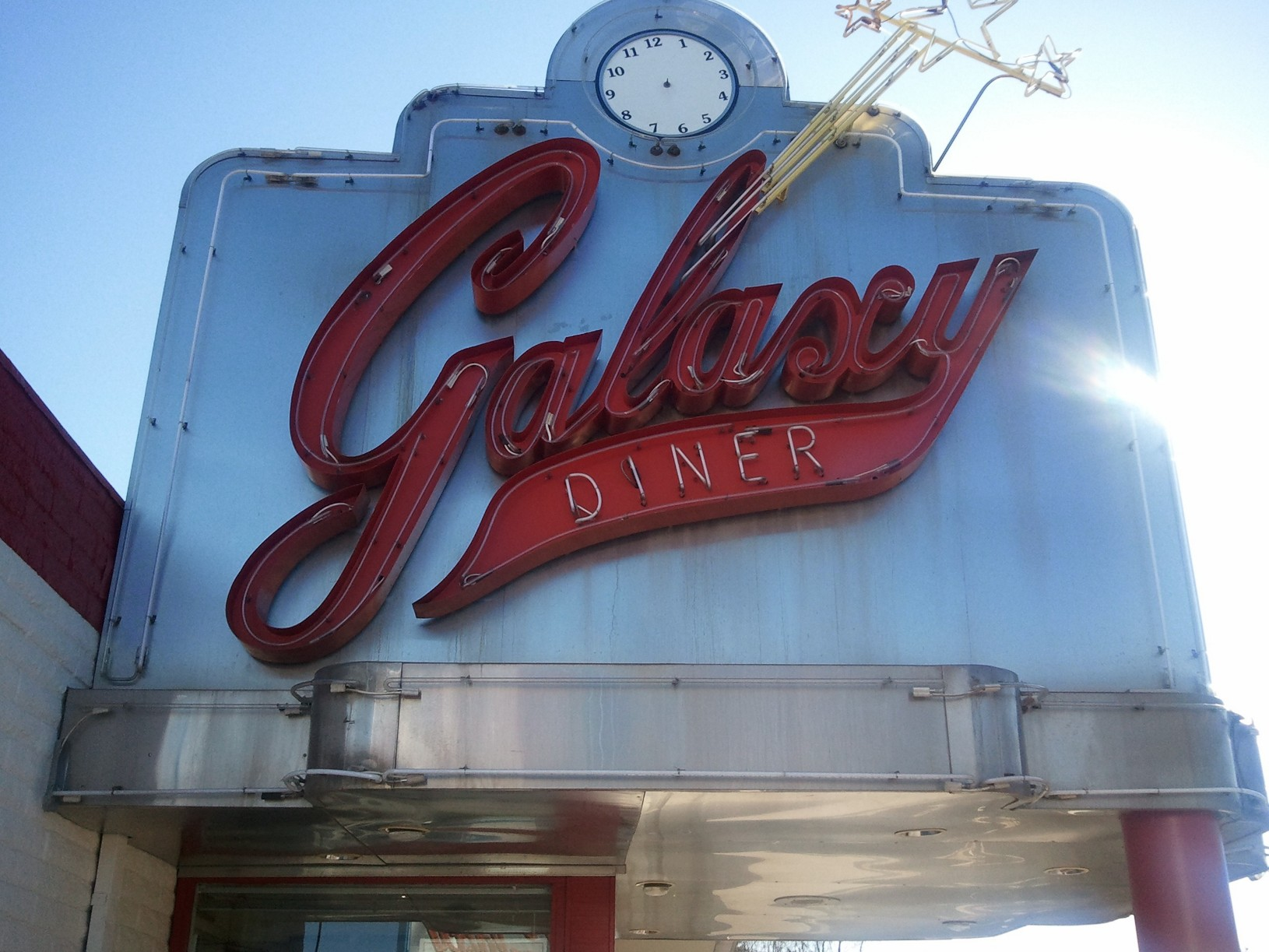 Scope and content: The original finding aid described this photograph as: Original Caption: The Galaxy Diner is one of the famous local restaurants in Flagstaff, Arizona. Its red and chrome sign, pictured here, stands out brilliantly against a clear blue sky. Location: Location: Flagstaff, Arizona Status: Public domain. Jill Bowers